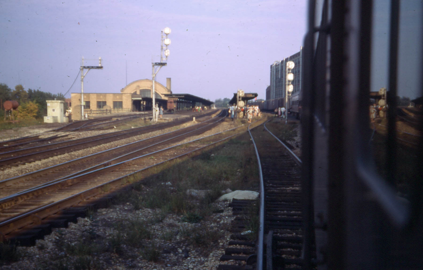 19670917 09 South Bend Union Station